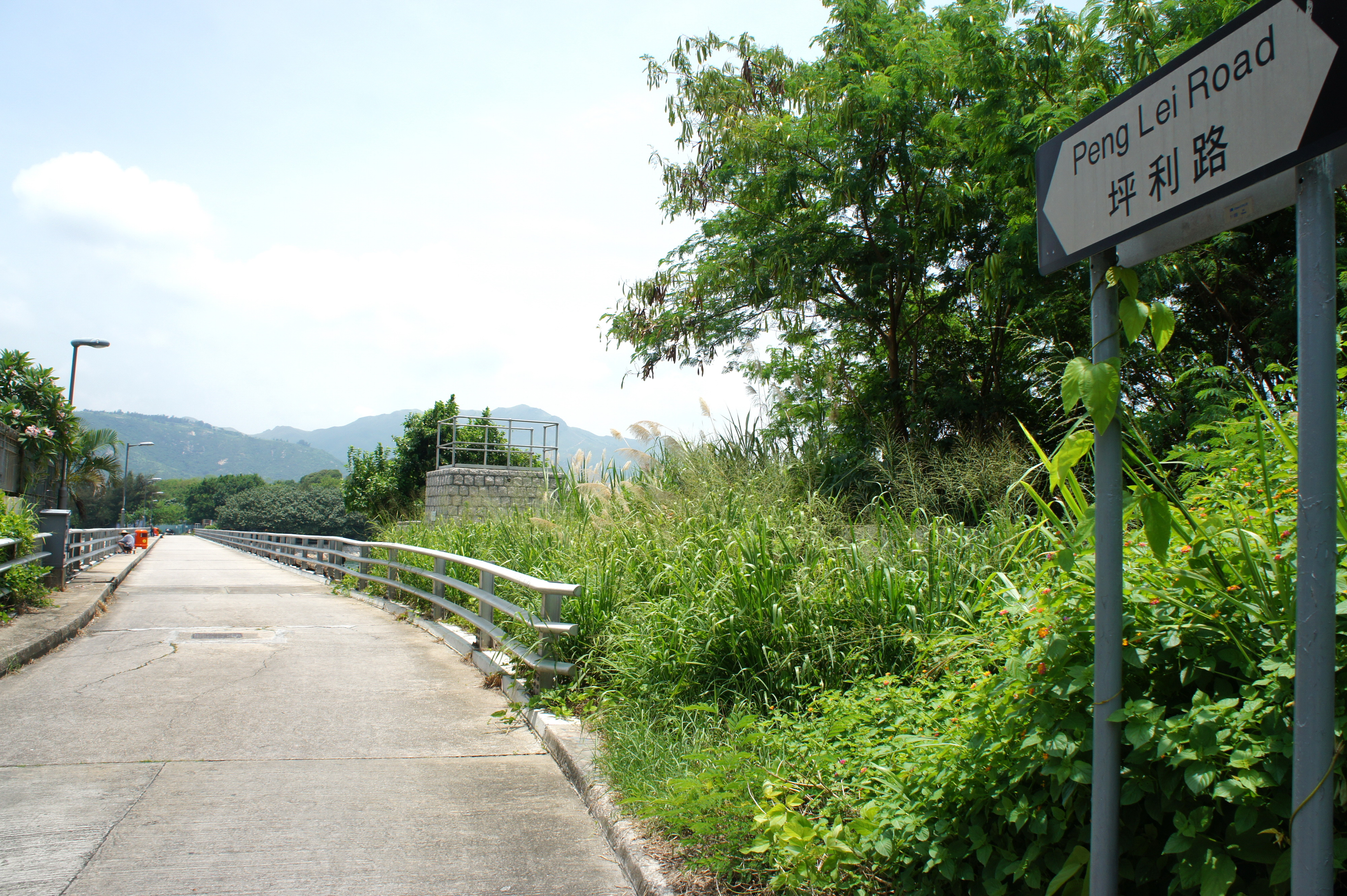 Peng Lei Road, Peng Chau, New Territories, Hong Kong.